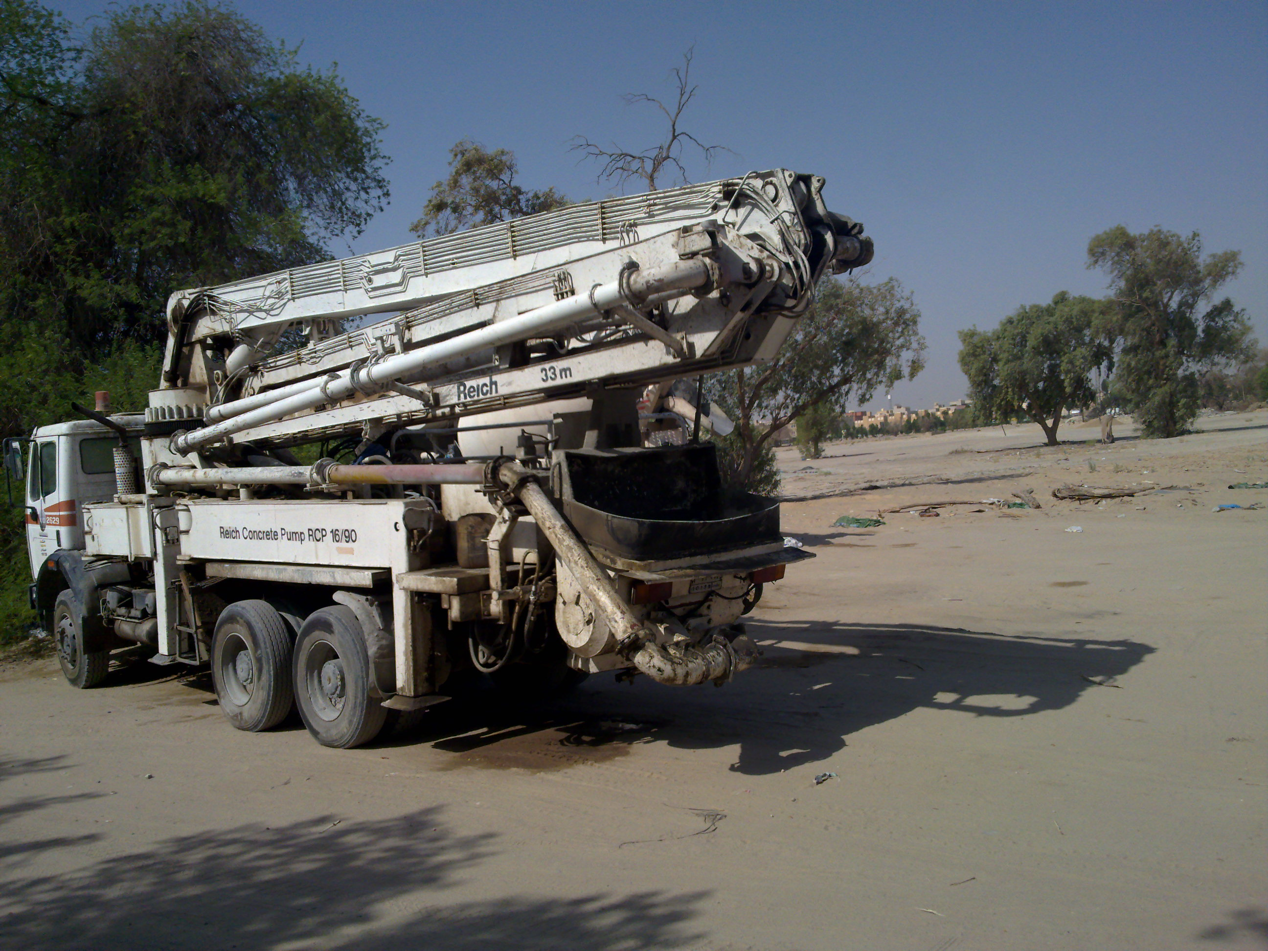 photos by irvin calicut This media file is uploaded with Malayalam loves Wikimedia event - 3.